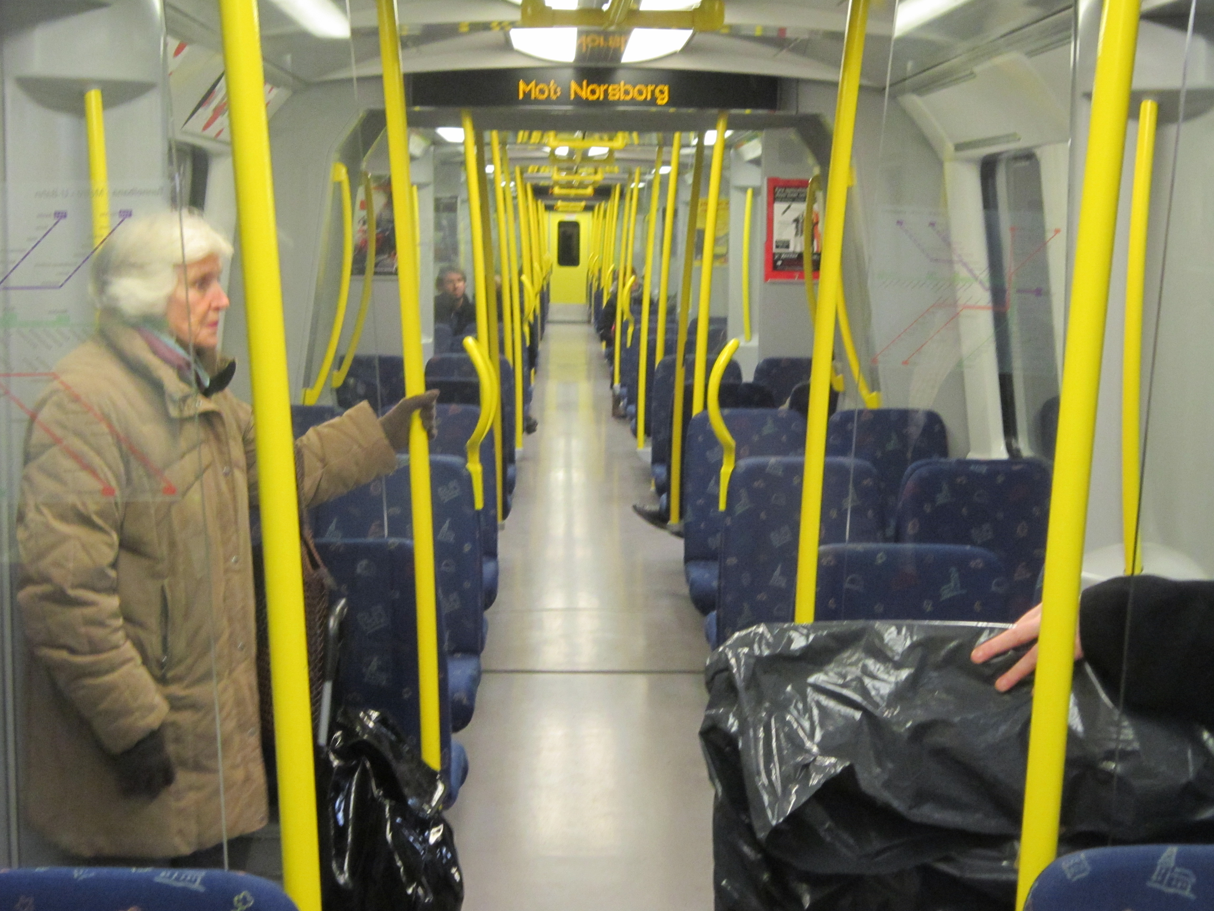 Stockholm Metro C20 interior